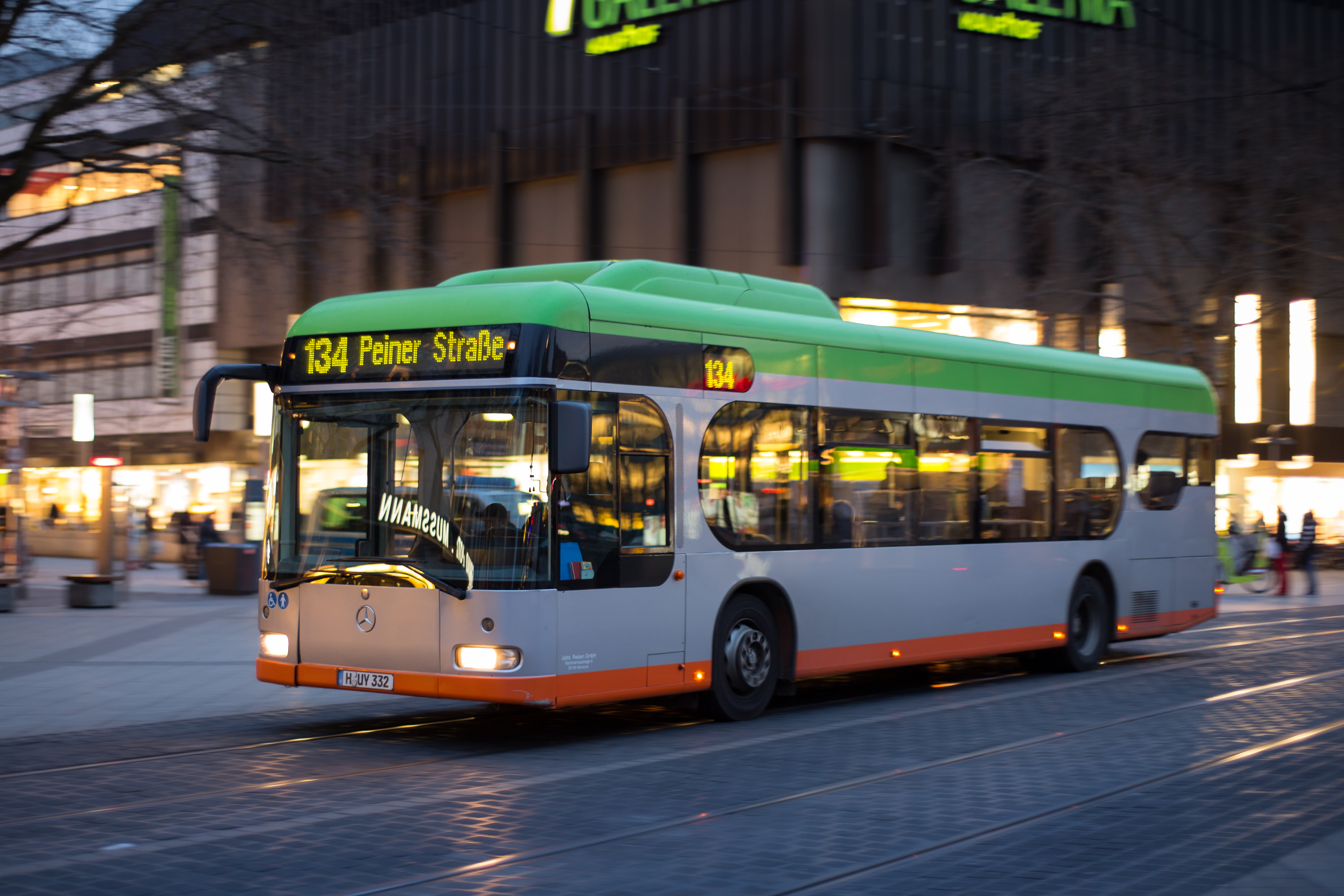 Public bus Mercedes-Benz Citaro Irvine of uestra transportation company, seen in front of Hannover main station, Germany.